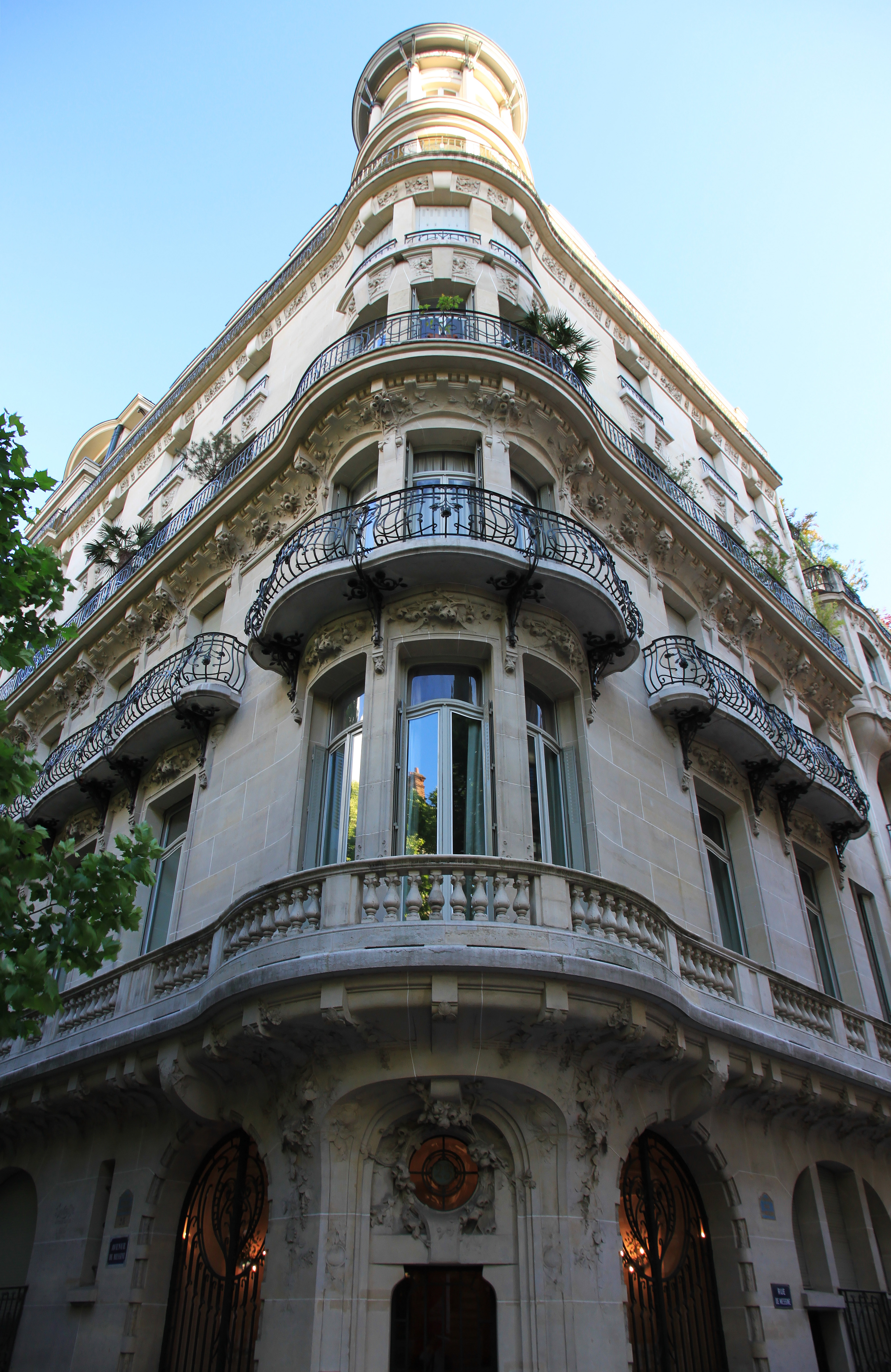 Building at the angle of avenue de Messine and rue de Messine, Paris. Work of Art Nouveau architect Jules Lavirotte (1907).